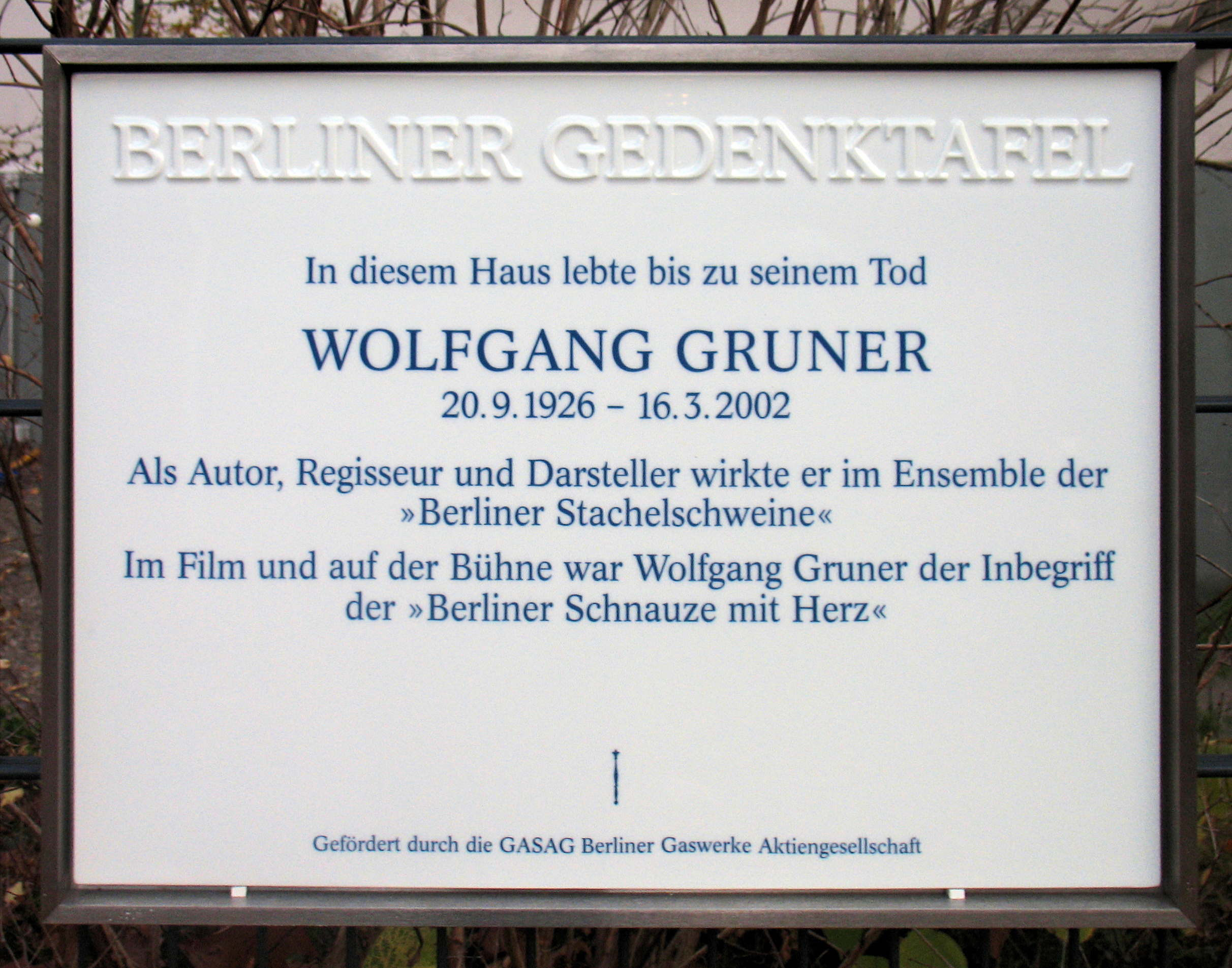 Berlin memorial plaque, Wolfgang Gruner, Westendallee 57, Berlin-Westend, Germany